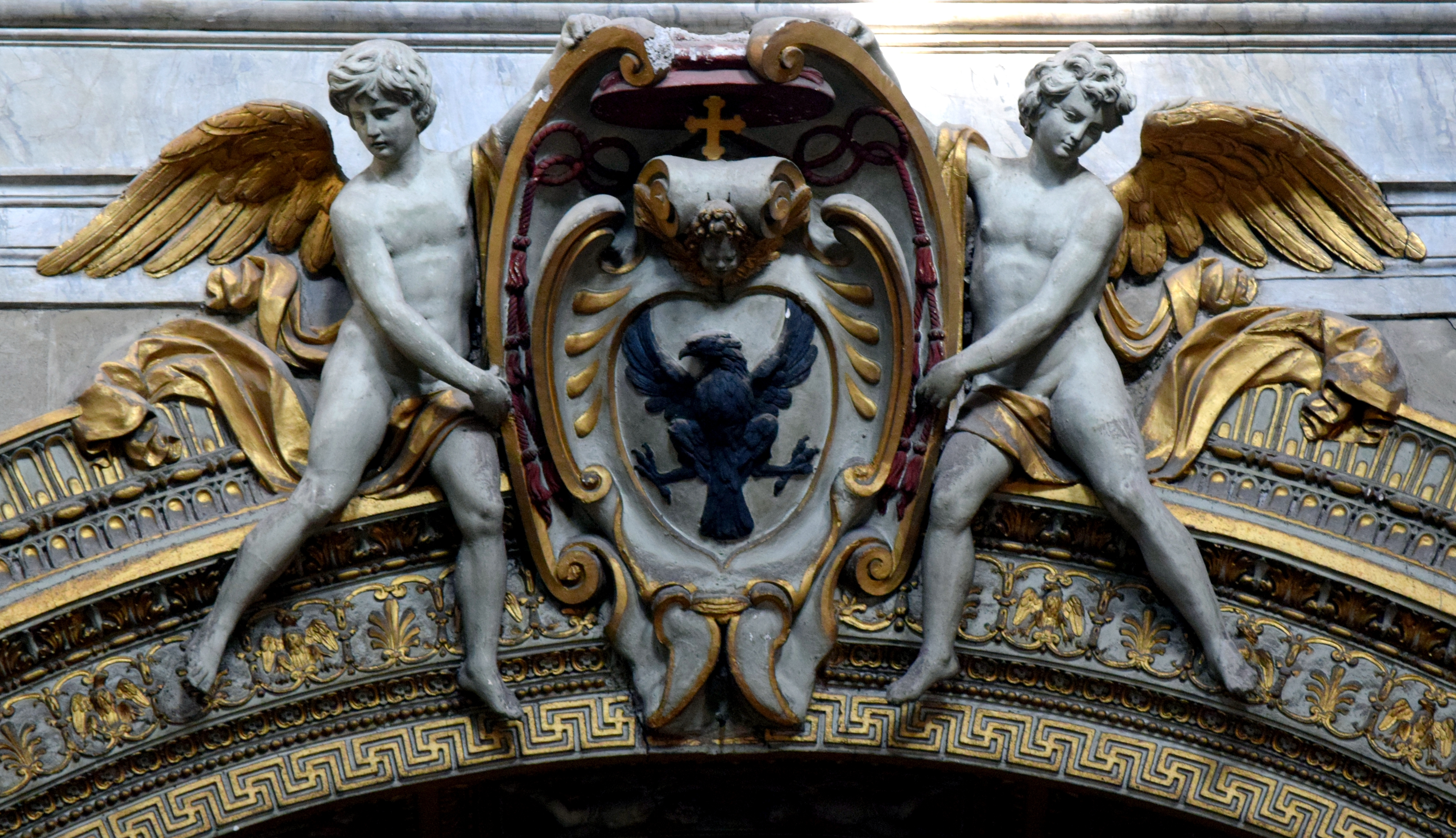 The coat of arms of Cardinal Antonio Maria Sauli in the Basilica of Santa Maria del Popolo. Stucco sculpture group from c. 1627.